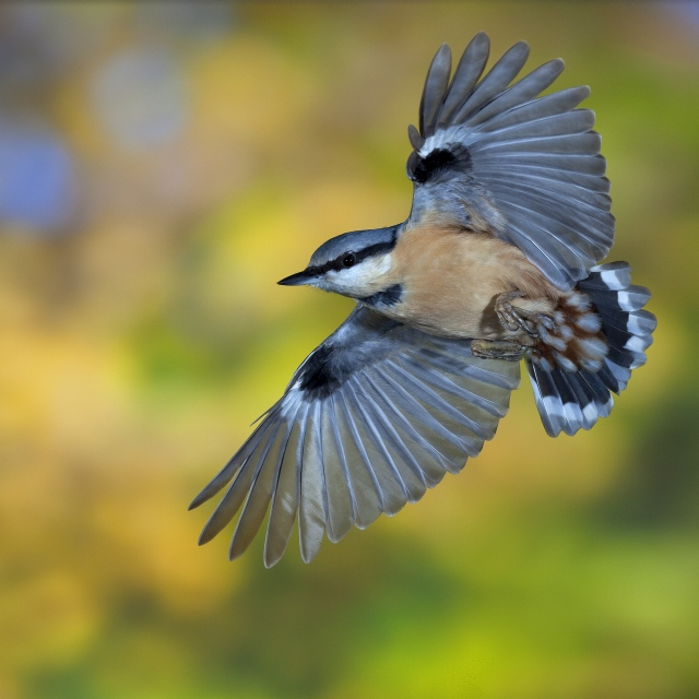 Nuthatch in flight